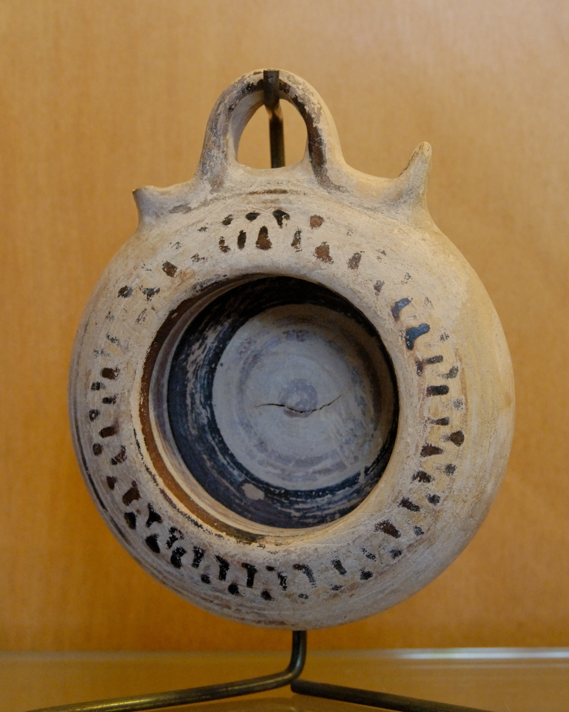 Kothon, Greek artwork.